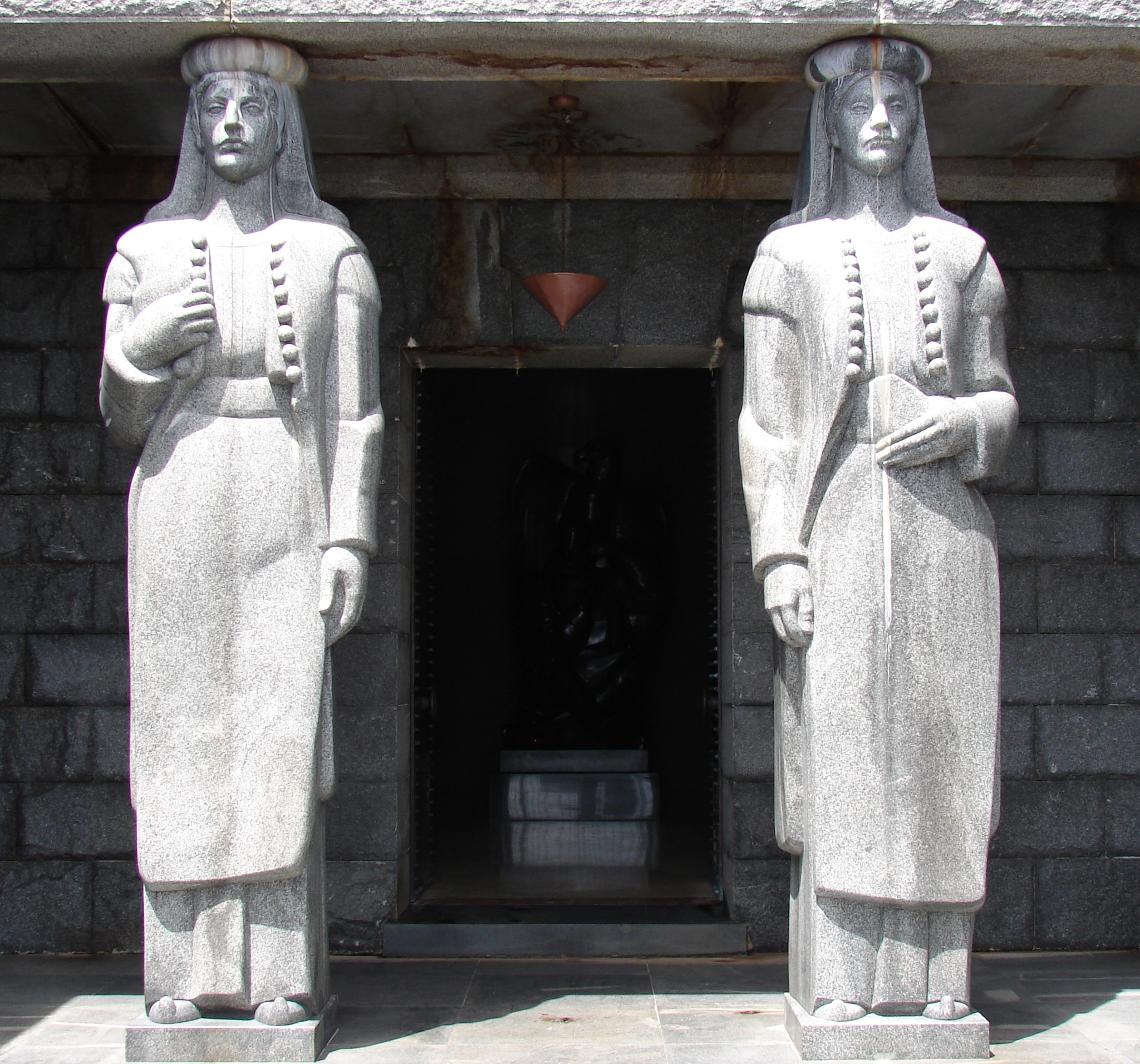 Montenegro Lovcen national park, Njegos Monument